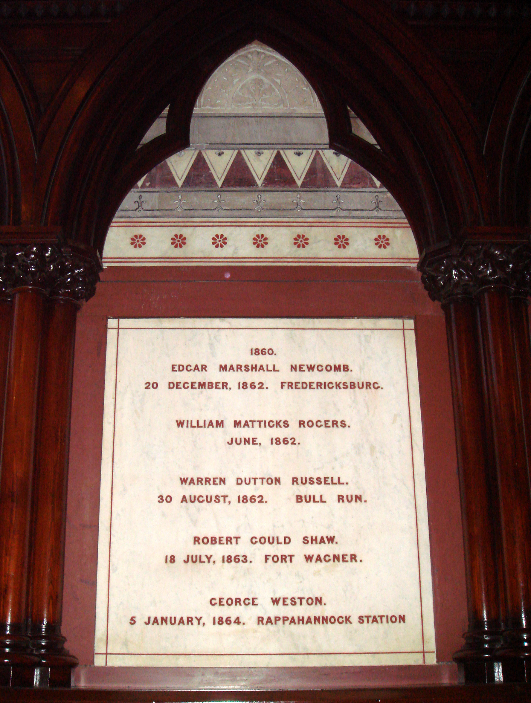 Memorial plaque to Robert Gould Shaw in Harvard University's Memorial Hall.